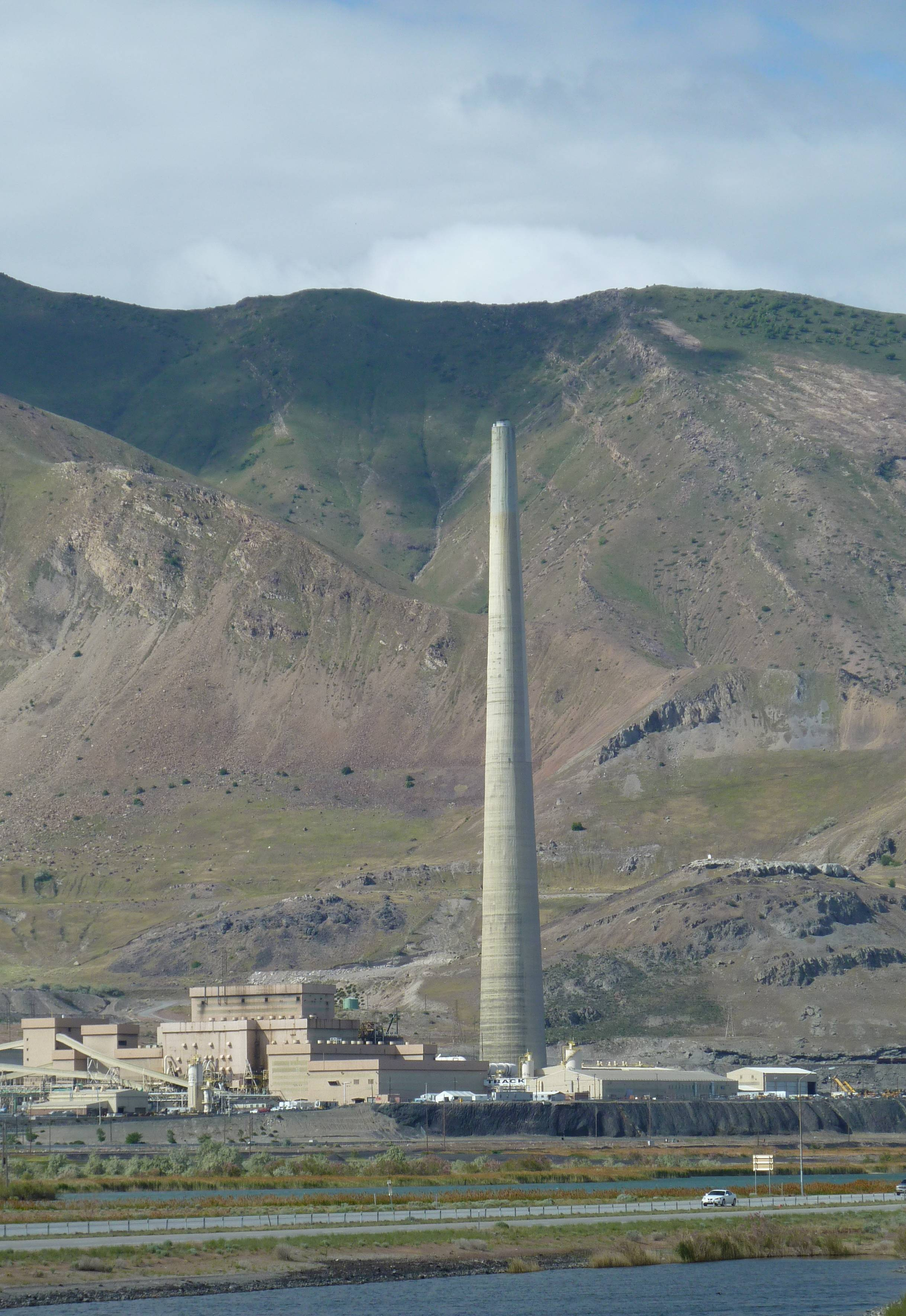 Kennecott Utah Copper's Garfield Stack, Interstate 80 in foreground